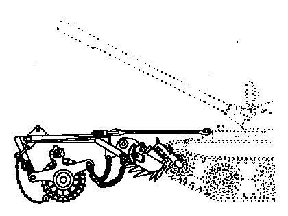 TRADOC DCSINT Threat Support Directorate produced ST 100-7. The author is James Hicks. He may be reached at or 913-684-5197. Some of the line drawings in the equipment chapter were taken from the Marine Corps Intelligence Activity sponsored Soviet/Russian Armor and Artillery Design Practices: 1945-1995 Study and are identified by an annotation of "MCIA" to the right of the drawing.